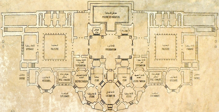 Floor plan of the Antonine Baths, Carthage